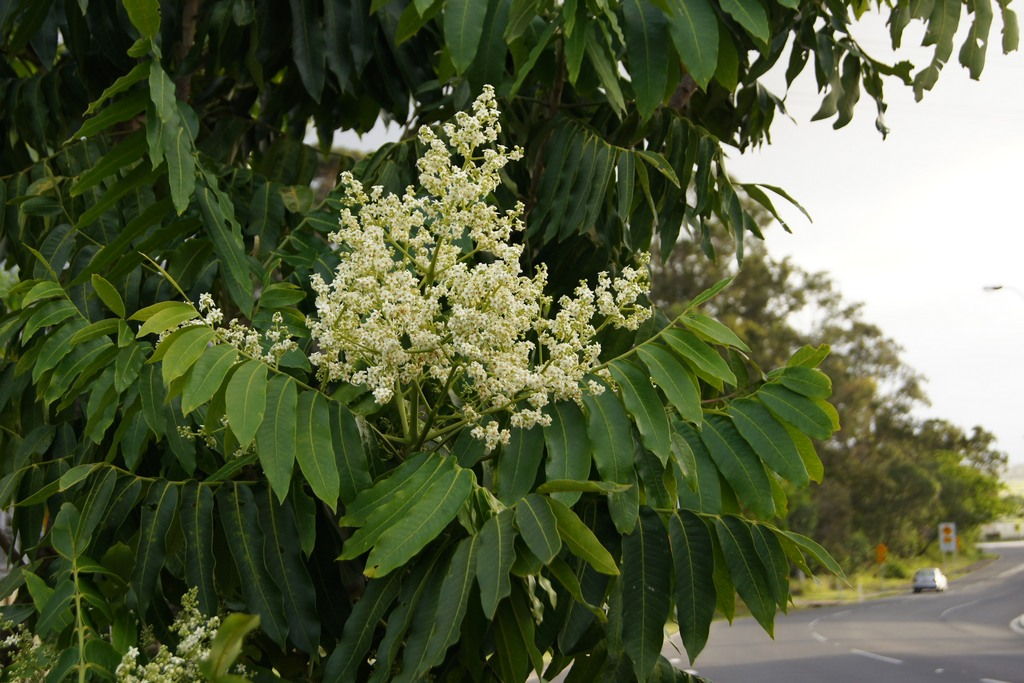 Flindersia schottiana. For some time I had been wondering what these young trees are. They are planted on some streets in Brisbane. I was sure they are Australian native. Now I know, I think, they are Flindersia schottiana (please let me know if you disagree) Named in honour of Captain Matthew Flinders - one of the most successful navigators and cartographers. Common names: - Cudgerie, Bumpy Ash or Silver Ash It is the third Flindersia in my collection. This species has more robust leaves and new growth. I believe it is a very good choice as a street tree. But then I found : The Silver Ash (Flindersia schottiana) has pods that are particularly big and heavy and for this reason it should not be planted where the pods can drop on cars or on people’s heads due to the potential to cause damage or injury. Ooops...